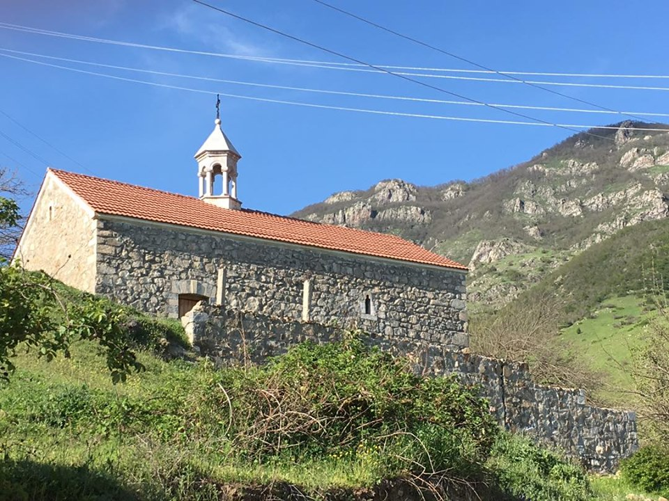 Karmrakuch